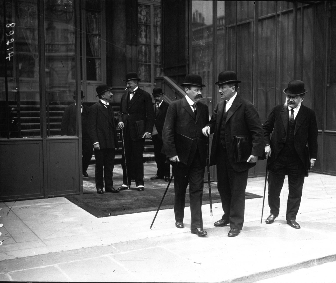 Conseil des ministres - la sortie de MM Le Trocquer, Bonnevay, Dior, Maginot, Bérard, Loucheur - (photographie de presse) - Agence Meurisse